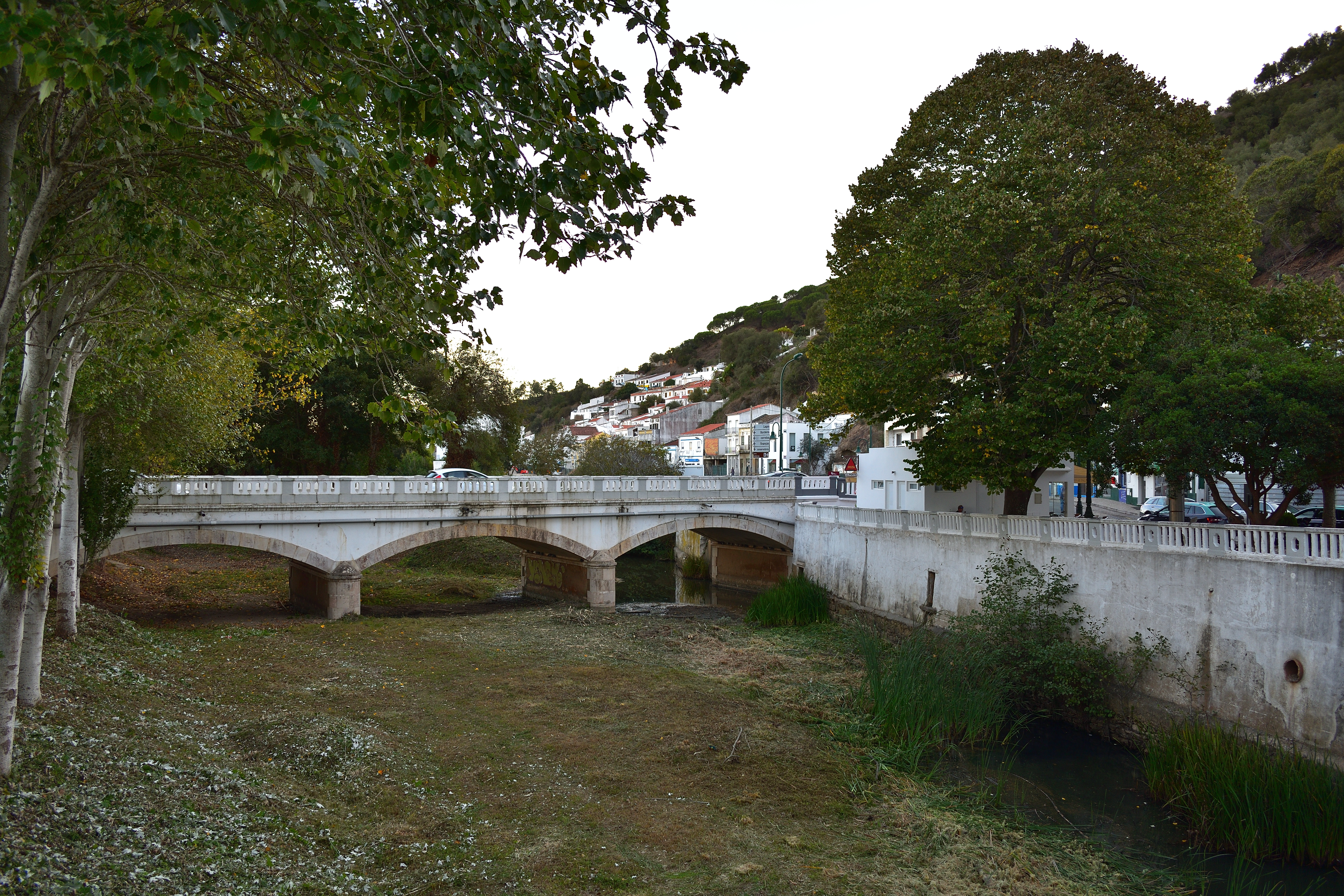 Bridge over Aljezur's Stream - Algarve, Southern Portugal.